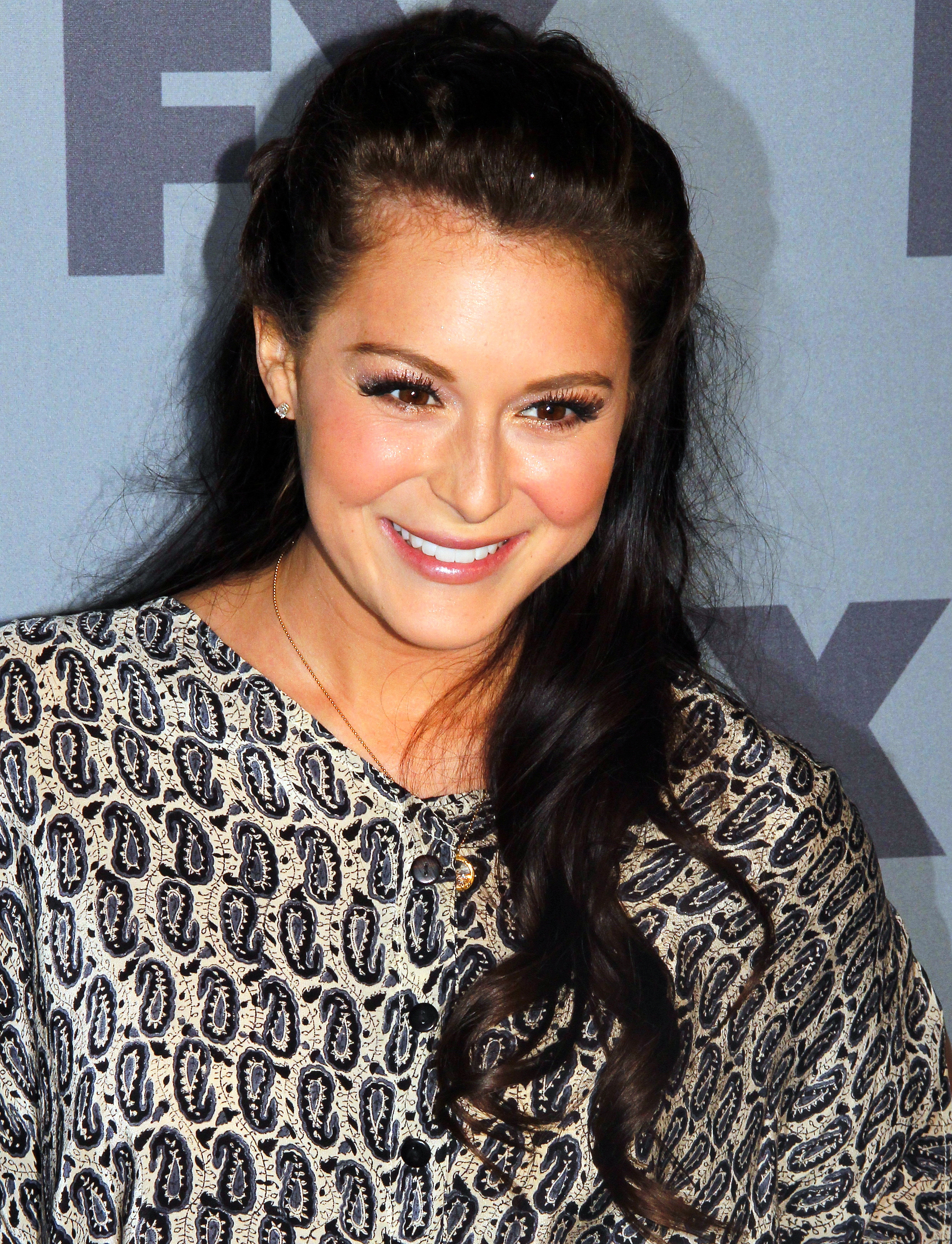 Alexa Vega at the 2012 FX Ad Sales Upfront.